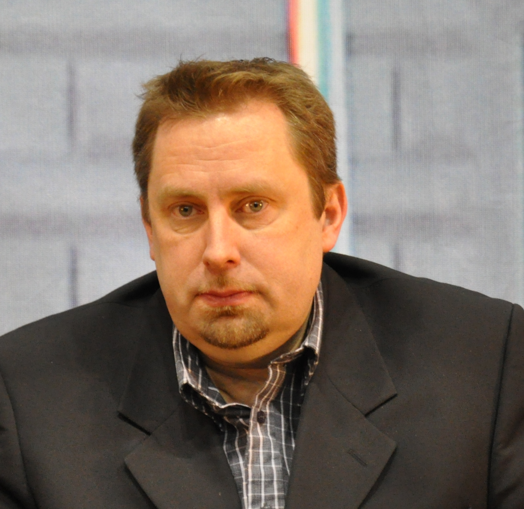 Finnish journalist and writer Jussi Lähde at the Tampere Book Fair 2010.